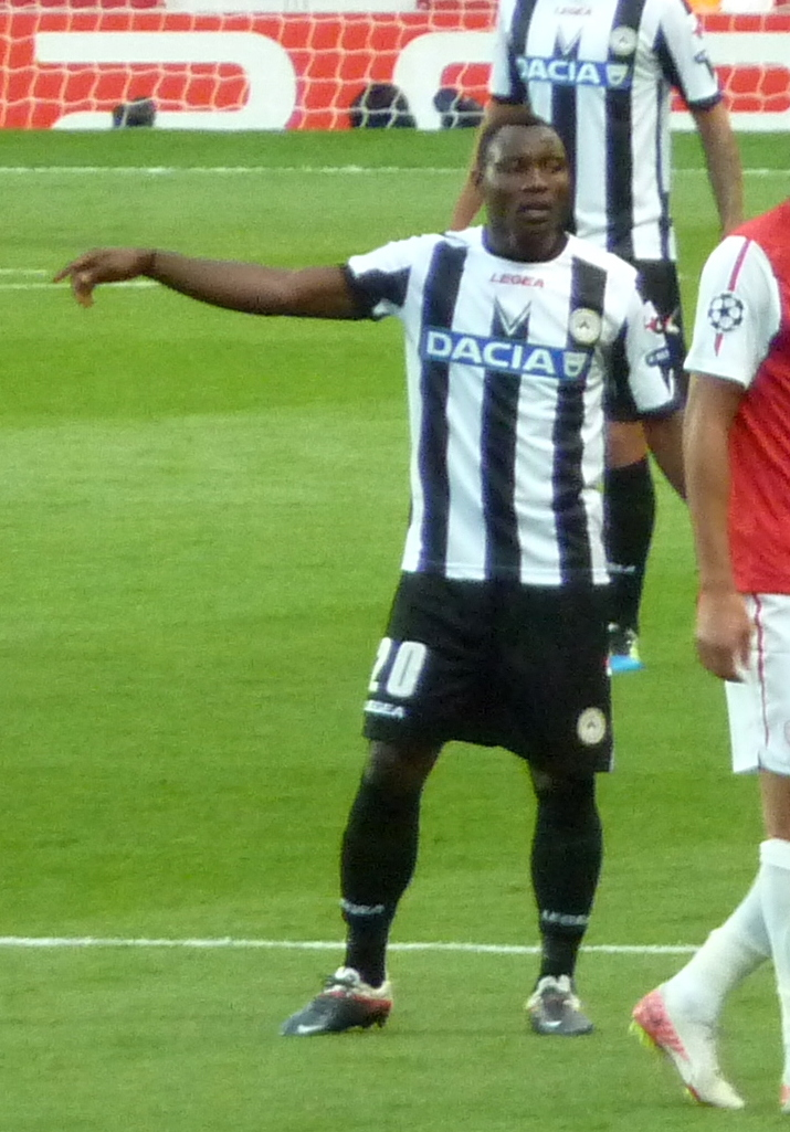 London (England), Emirates Stadium, August 16, 2011. Arsenal F.C. v Udinese Calcio 1-0, 2011–12 UEFA Champions League play-off, 1st leg: Udinese's Kwadwo Asamoah.